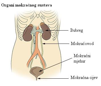 Language neutral version of Image:Illu urinary system.jpg